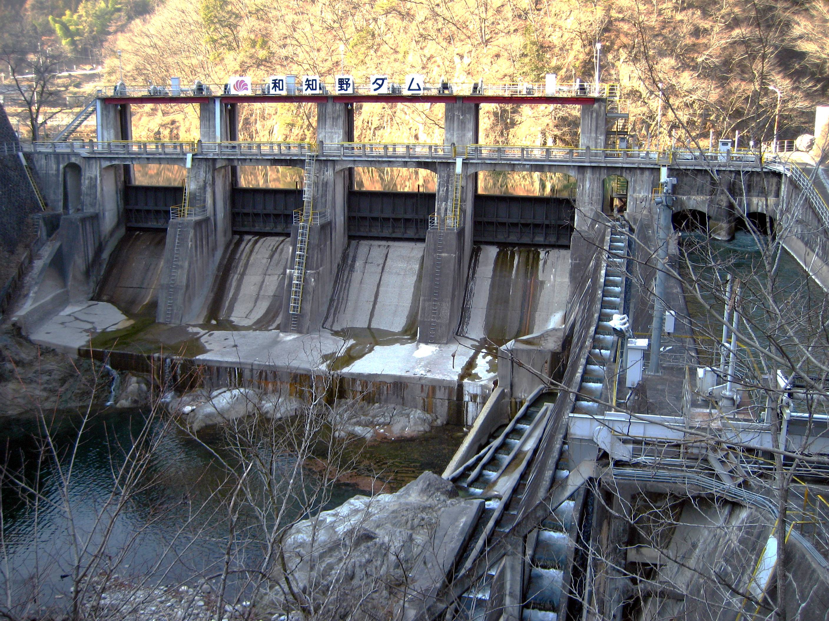 Wachino Dam (和知野ダム) in Anan town, Nagano prefecture, Japan.